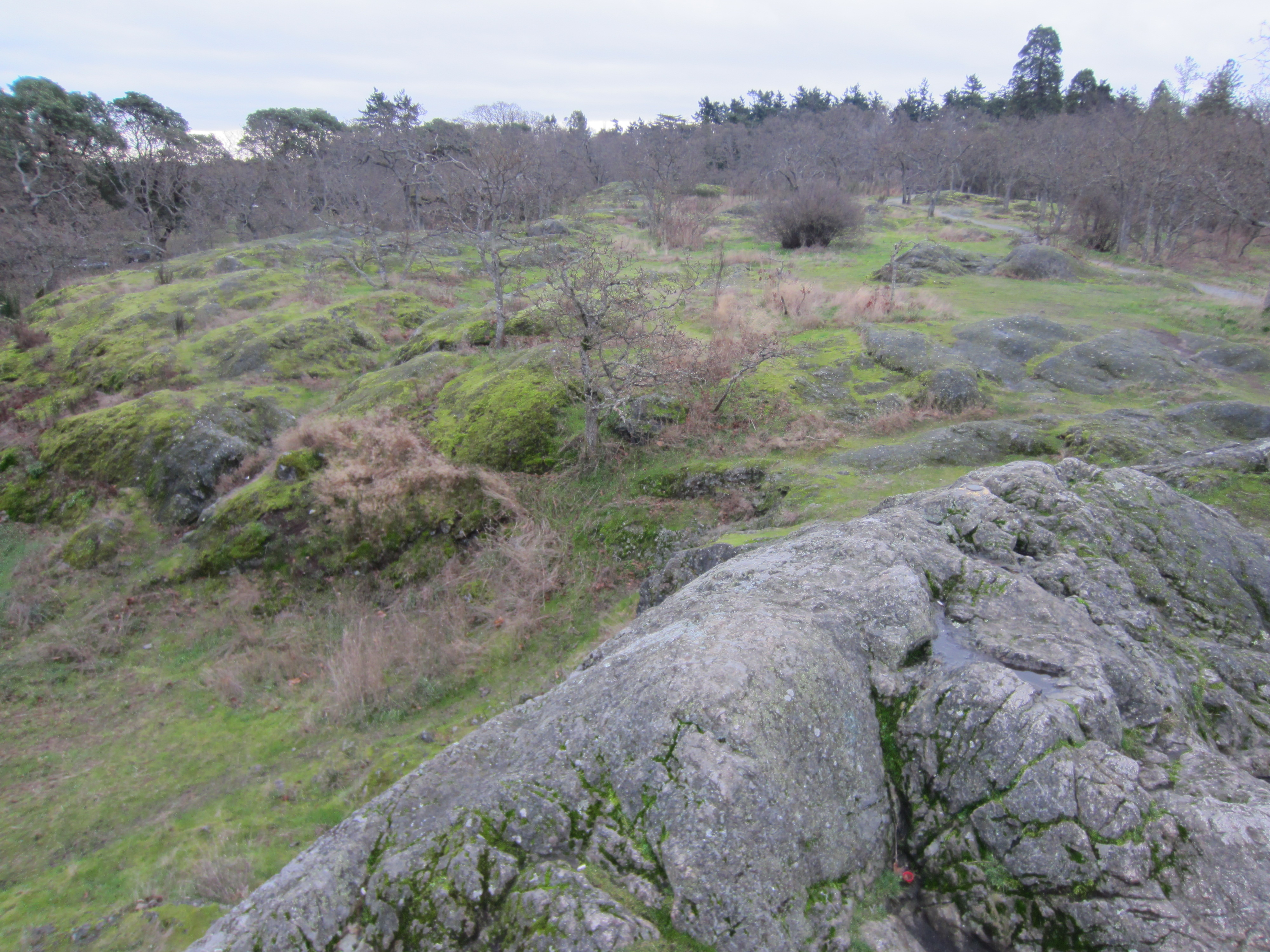 Beacon Hill Park, Victoria (2012)